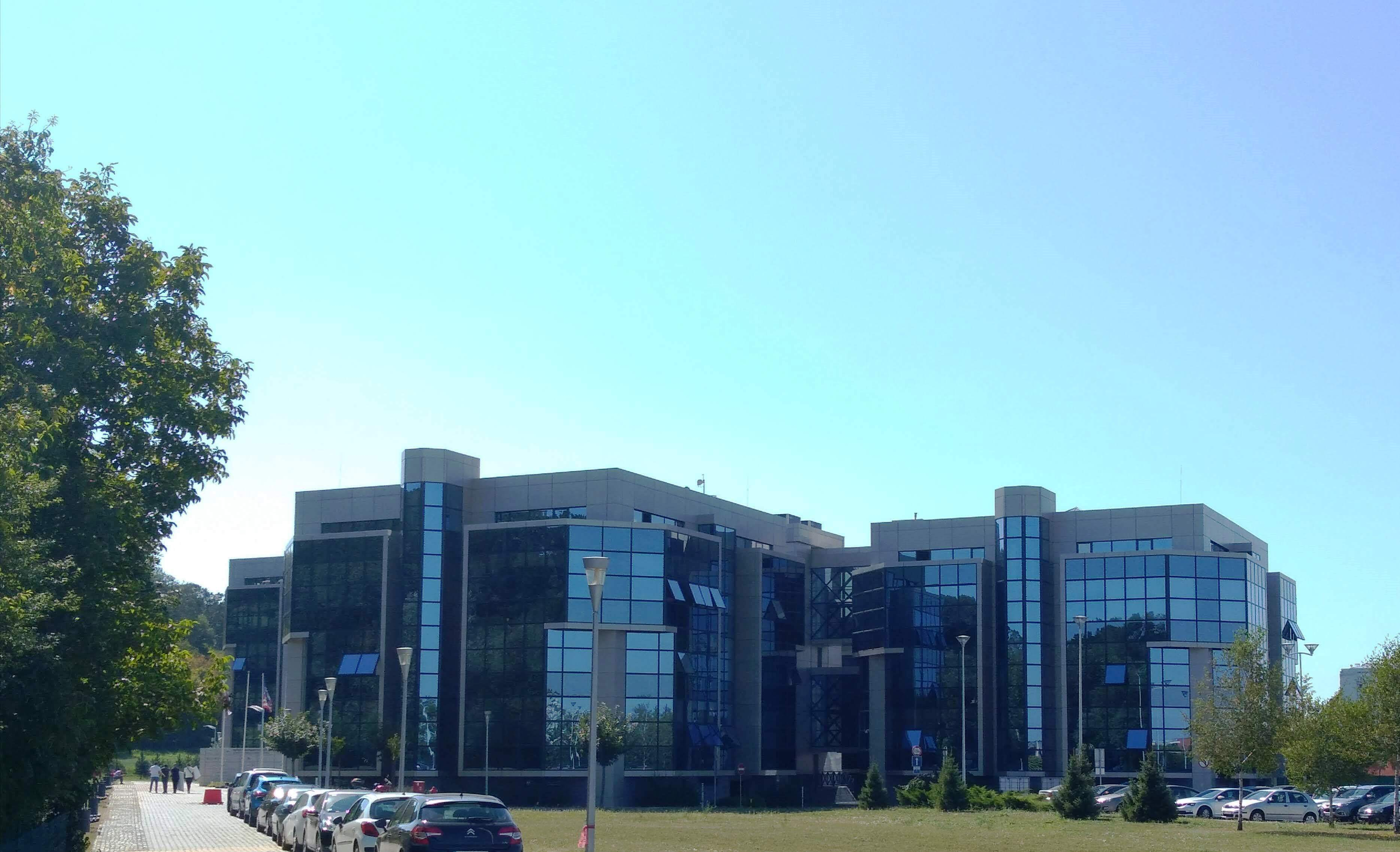 Science Technology Park Belgrade, a complex of five buildings.